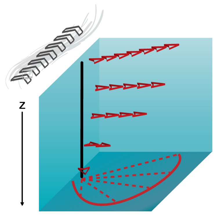 This is a picture of the Ekman Layer in the top of the ocean.